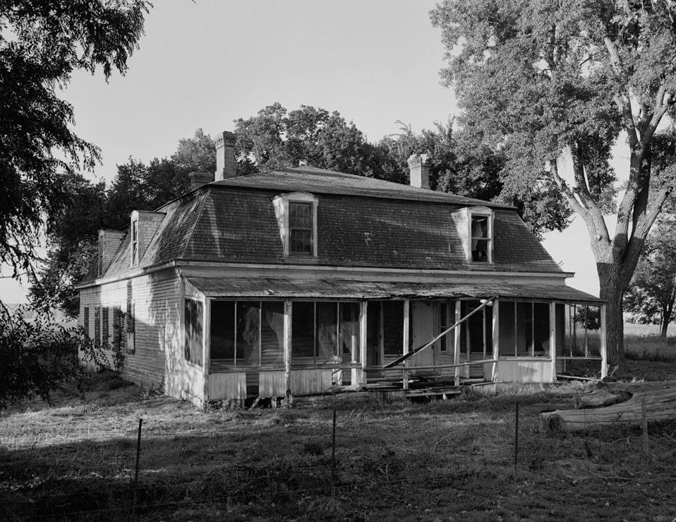 Entrance to officers' quarters at Fort Keogh, a former United States Army post southwest of Miles City in Custer County, Montana, United States. The fort complex is listed on the National Register of Historic Places.